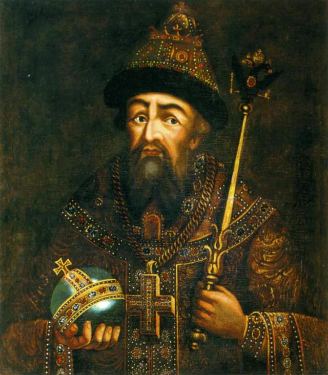 A parsuna portrait, painted in the beginning of the 18. century.